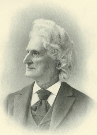 1904 portrait of James Dwight Dana